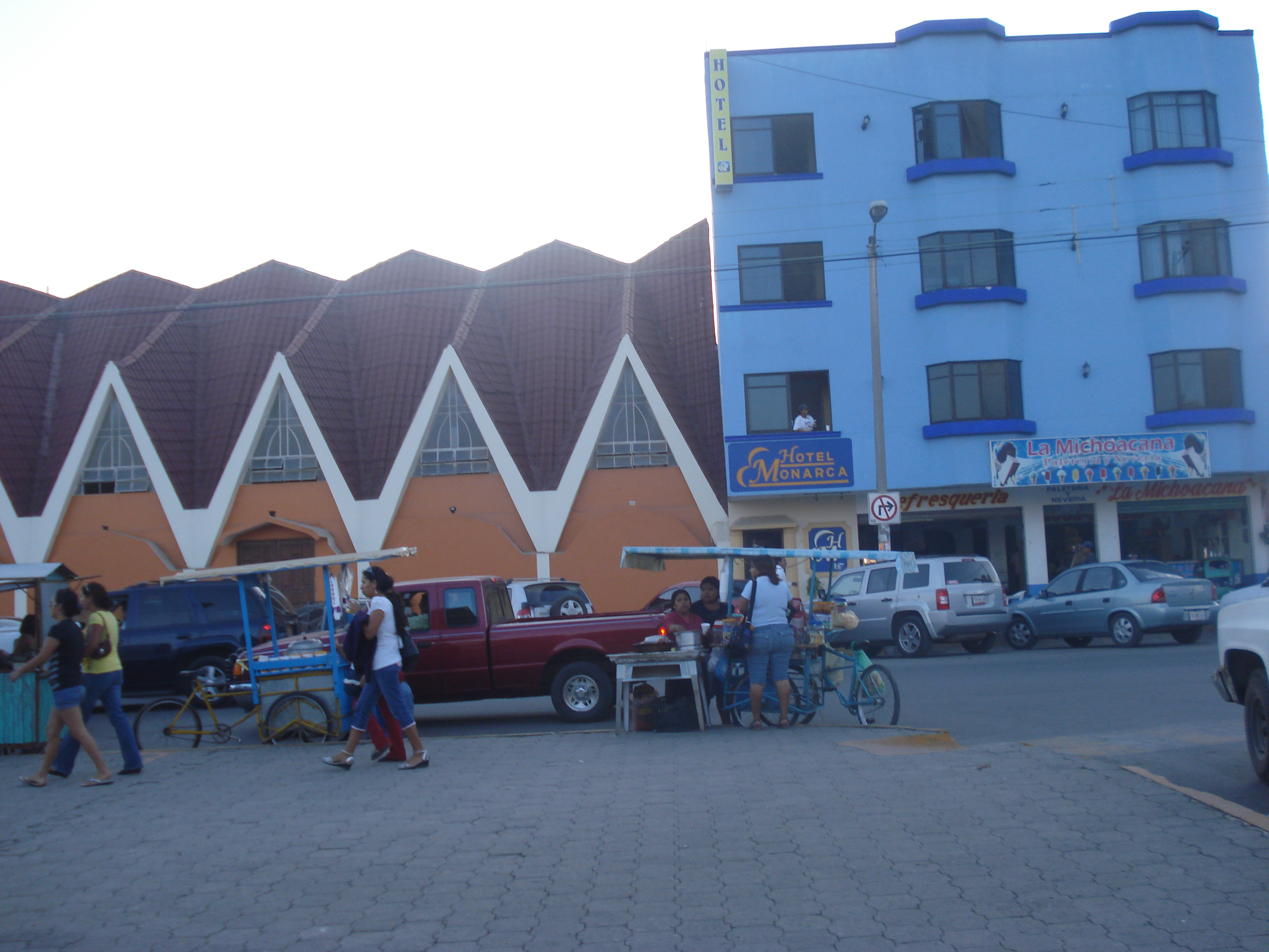 Hotel Monarca at Cerro Azul, Veracruz